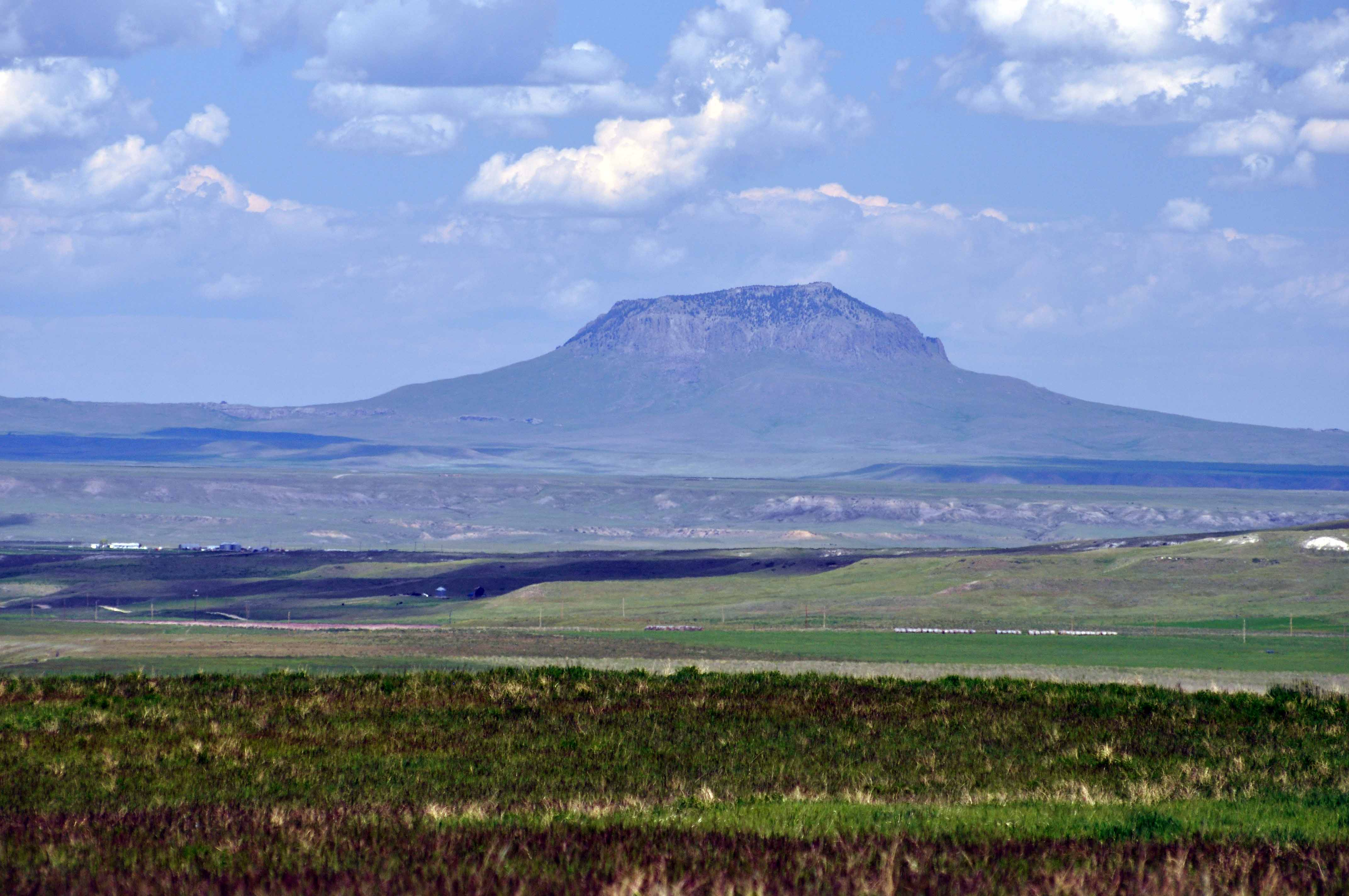 Southeast Face of Highwood Mountains Montana June 6, 2015